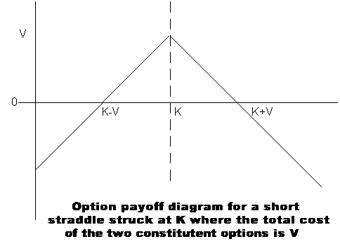 Option Payoff Diagram for a short straddle position